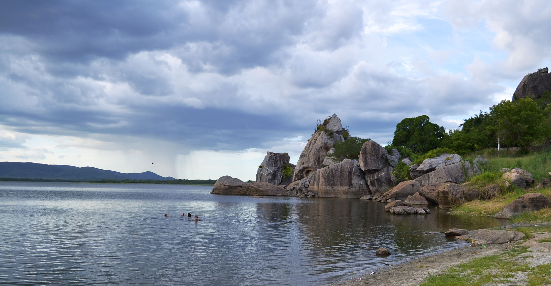 Açude do Cedro (8)